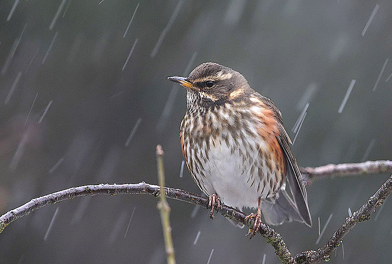 A Redwing in cold sleety rain. Image taken in my garden (West Fife, Scotland).